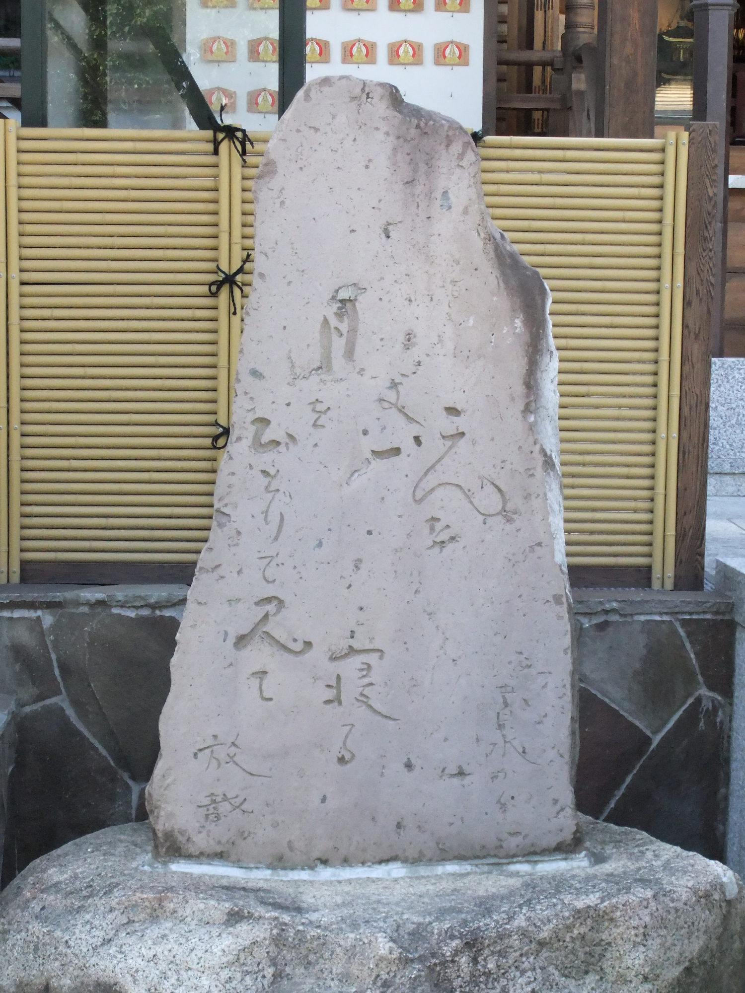 The Stele of Haiku (Japanese poetry), composed by Ozaki Hōsai at Sumadera Temple in Kōbe.